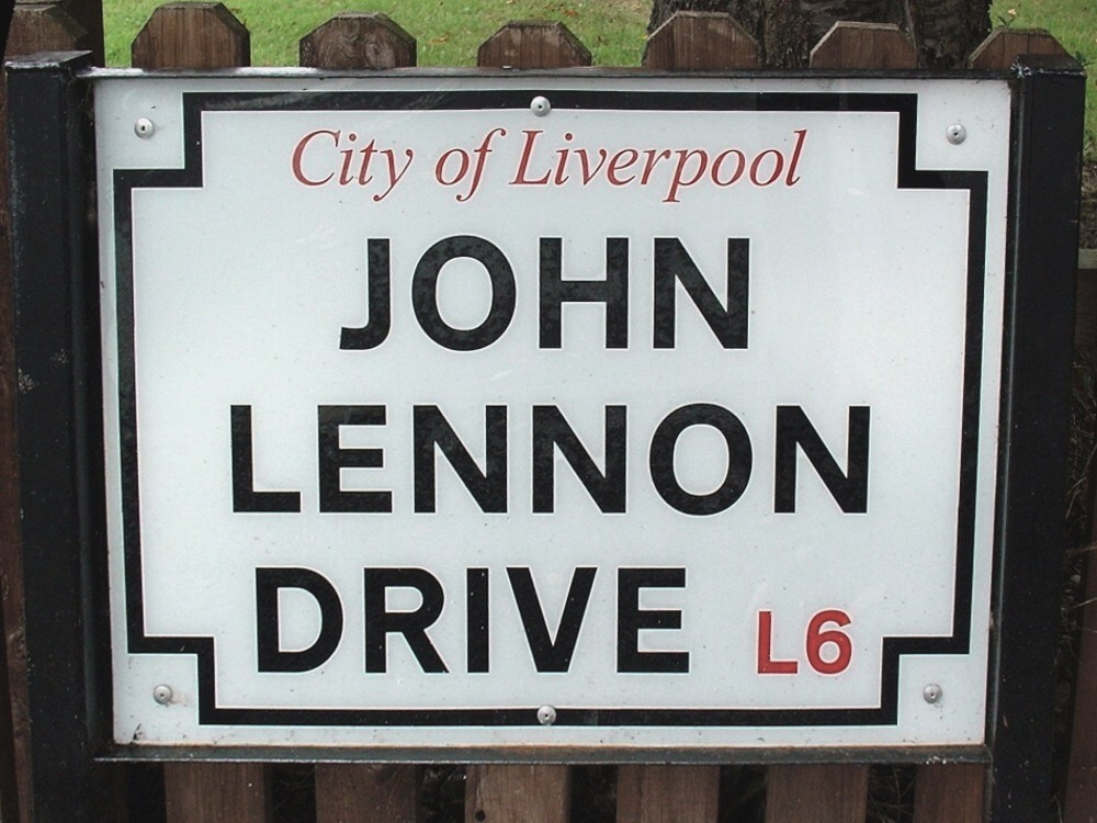 John Lennon Drive sign, Liverpool L6.